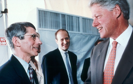 President Bill Clinton visits the NIH in 1995 and hears about the latest advances in HIV/AIDS research from Dr. Anthony Fauci, NIAID. Credit: NIH Photographer